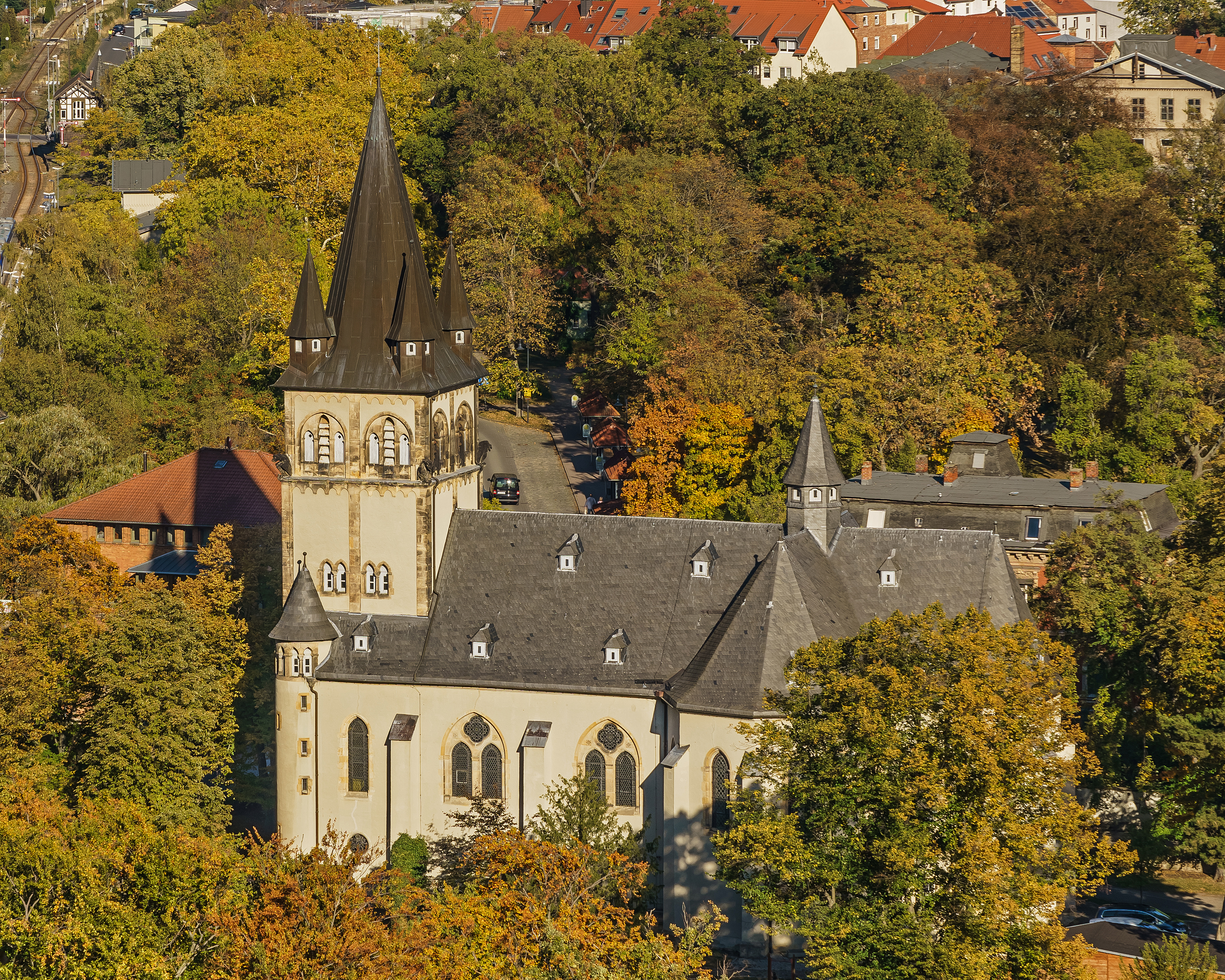 View from the chairlift in Thale, Germany